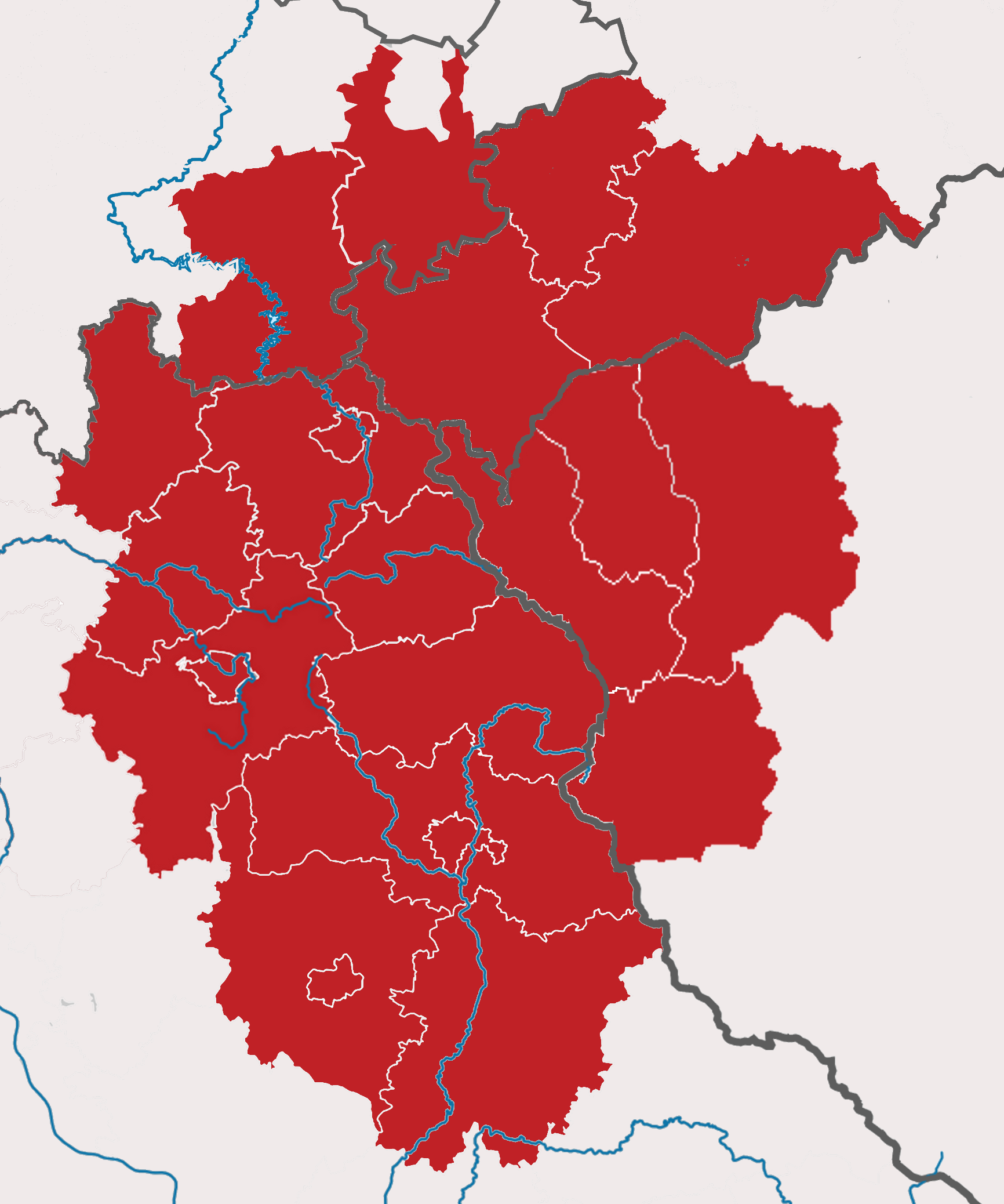 Map of euregio egrensis